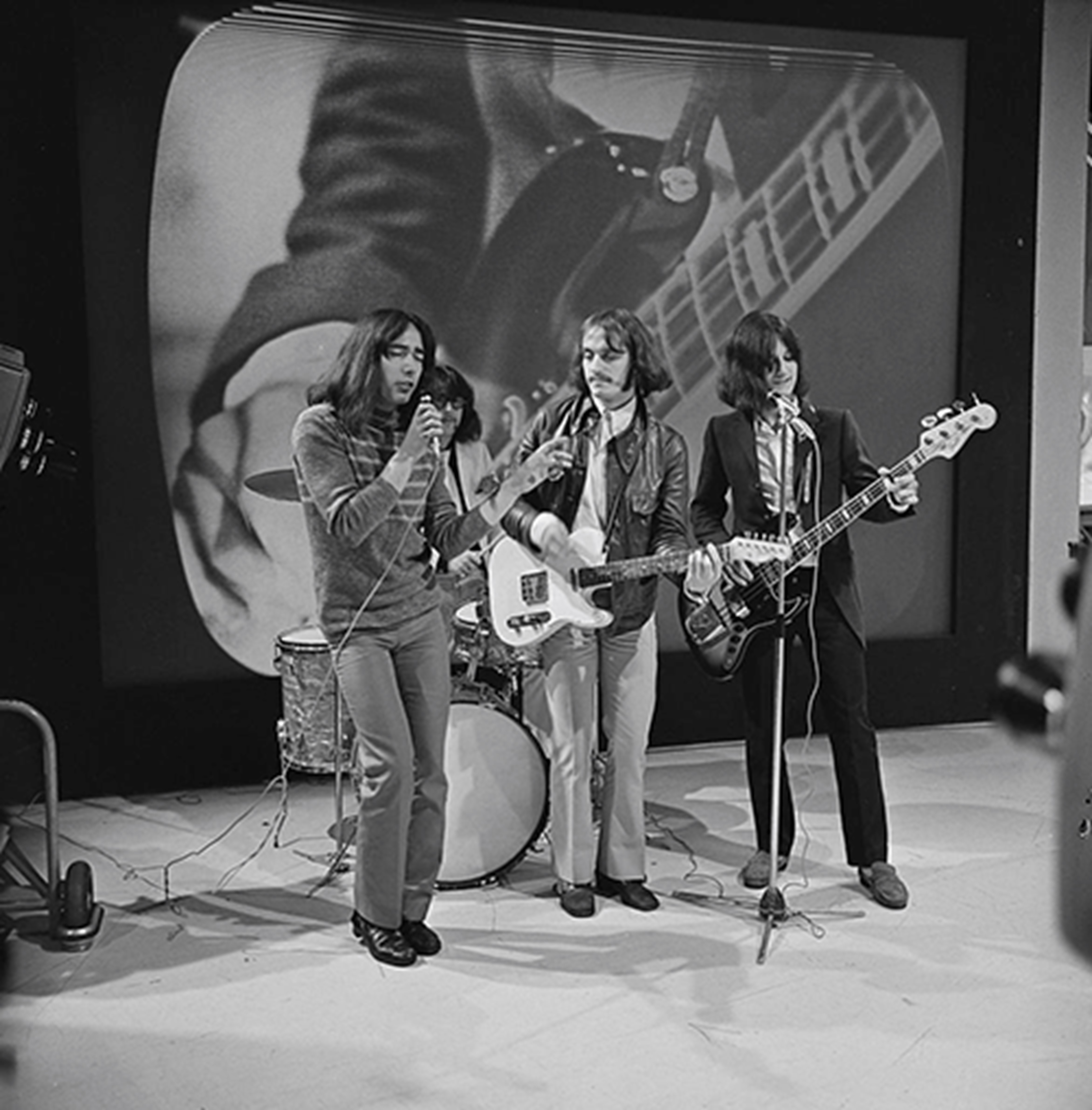 Dutch pop group The Outsiders (incl. Wally Tax) recording for Dutch TV programme Fenklup, 3 May 1968 (broadcast 18 May 1968)